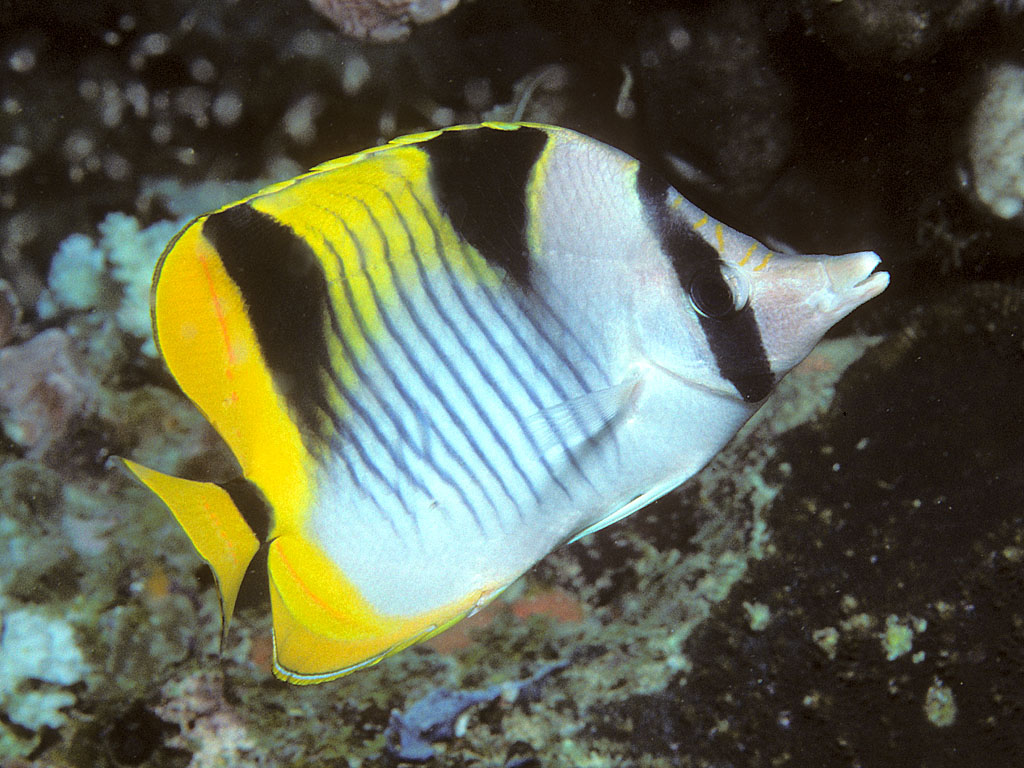 Chaetodon falcula, Blackwedged butterflyfish. Underwater photograph, Pemba island, Tanzania, Africa.